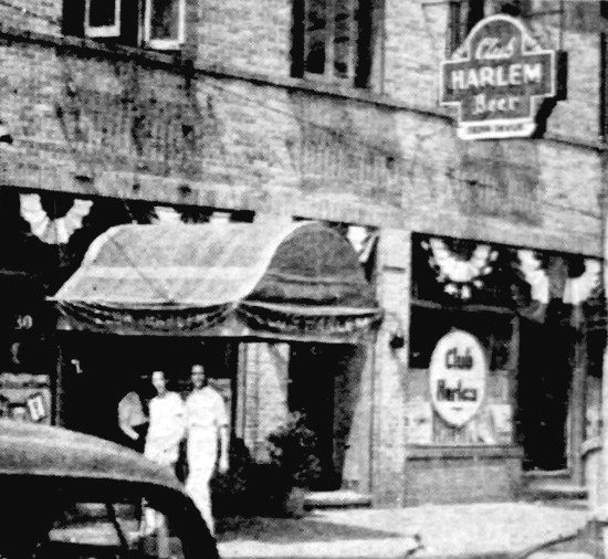 Photo of Club Harlem in Atlantic City from a 1940 issue of the Baltimore Afro American. A renewal search was done in periodicals for the years 1967 and 1968. There were no listings for the title The Afro American; there's no evidence of copyright for the newspaper.